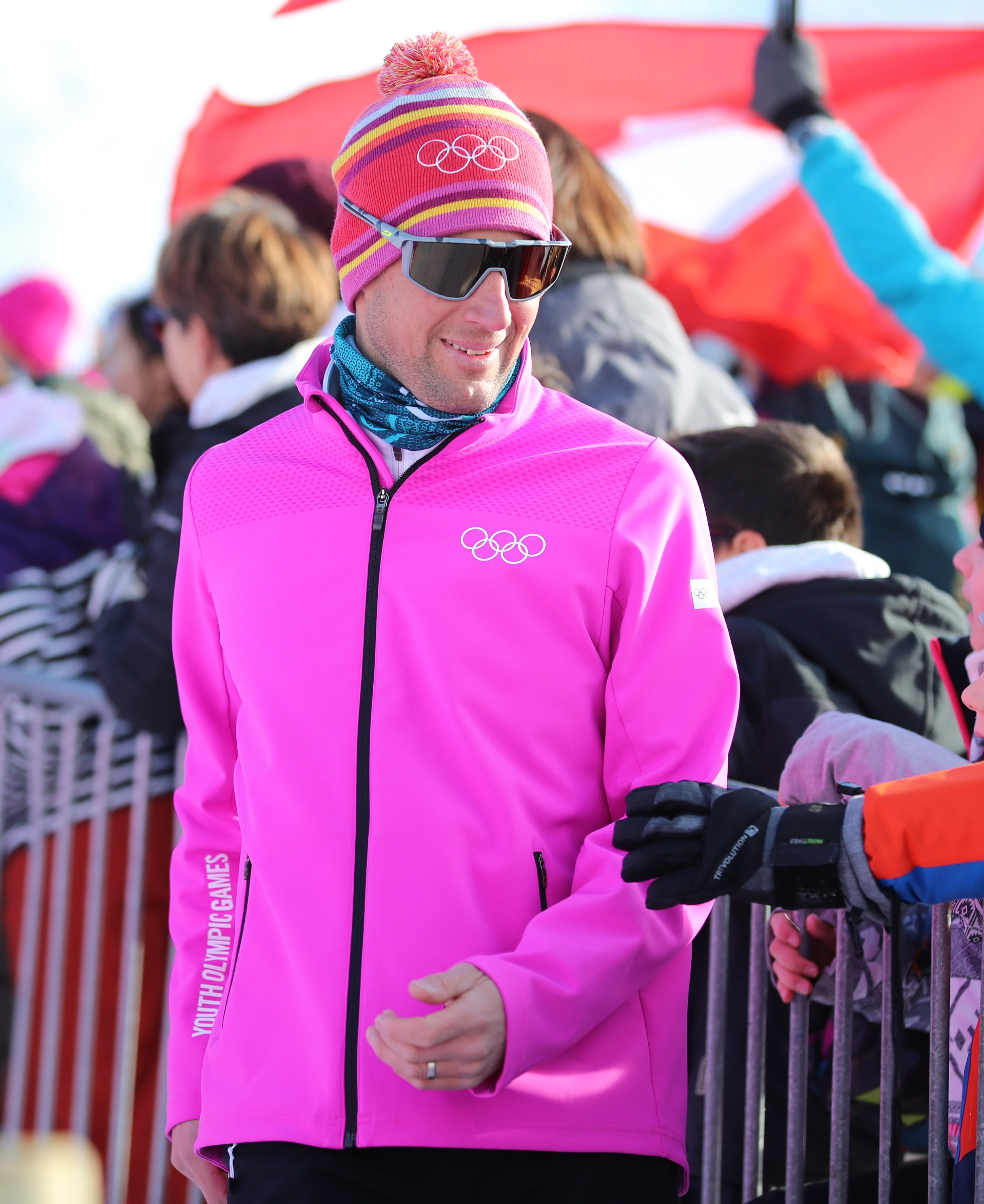 Mascot ceremony at the Ski mountaineering Mixed Relay at the 2020 Winter Youth Olympics in Lausanne